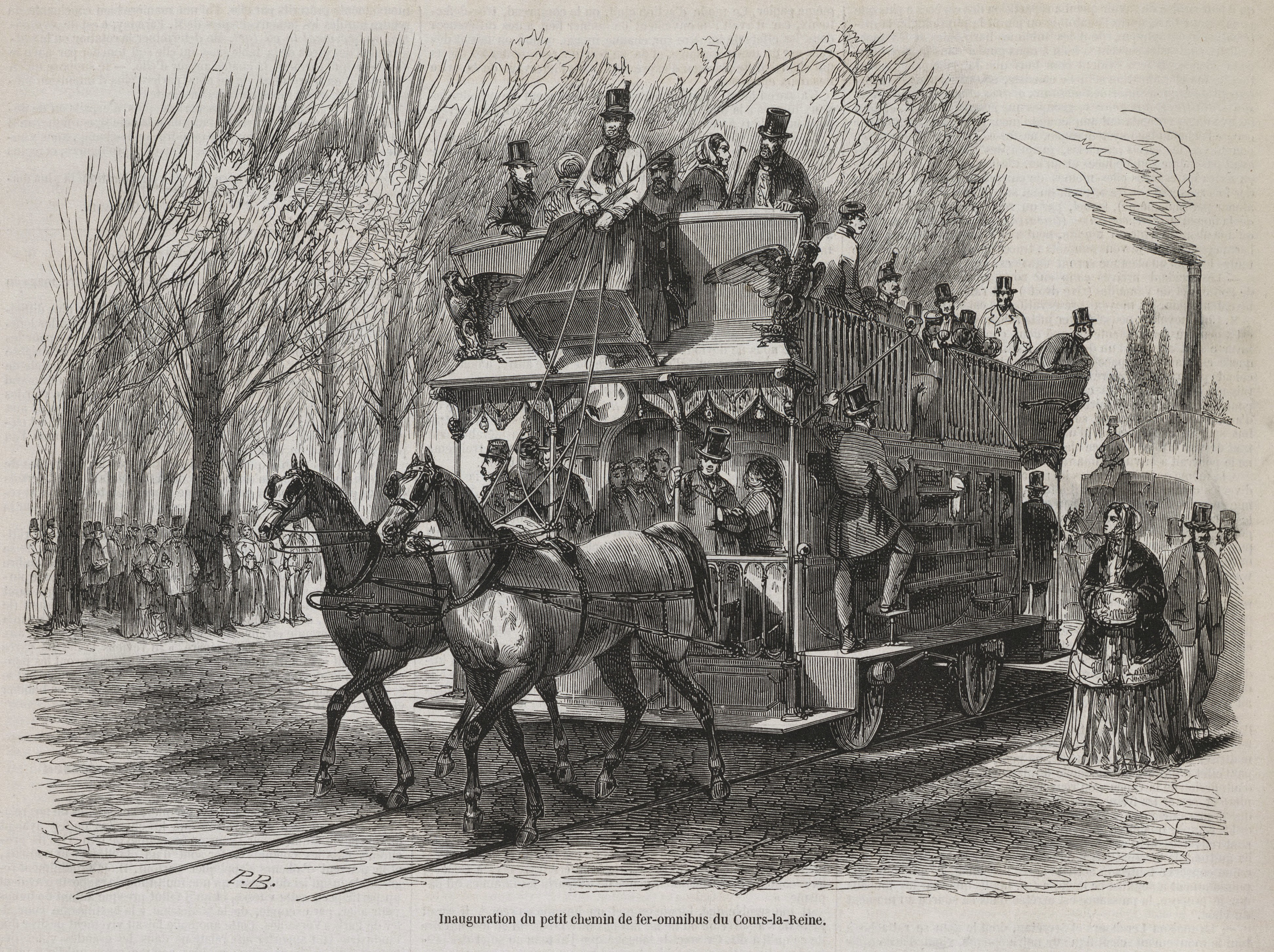 This print illustrates the inauguration of a new means of transportation, which was a combination of an omnibus and a railway system: the "chemin de fer-omnibus". This vehicle was supposed to compensate for the lack of appropriate public transportation between Paris and its inner suburbs, but it did not have the success that its creators had hoped for.